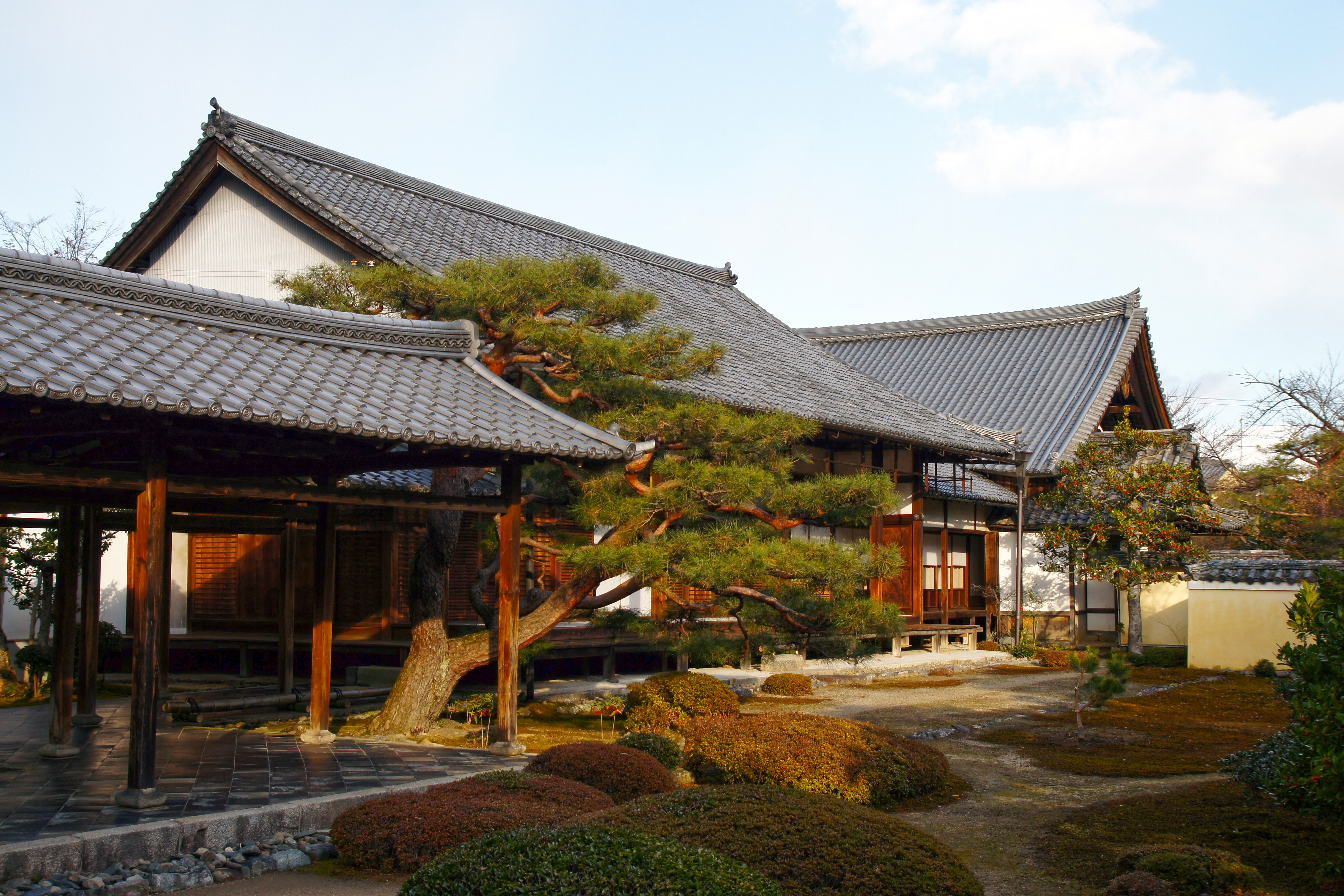 Rokuo-in in Kyoto, Kyoto prefecture, Japan.